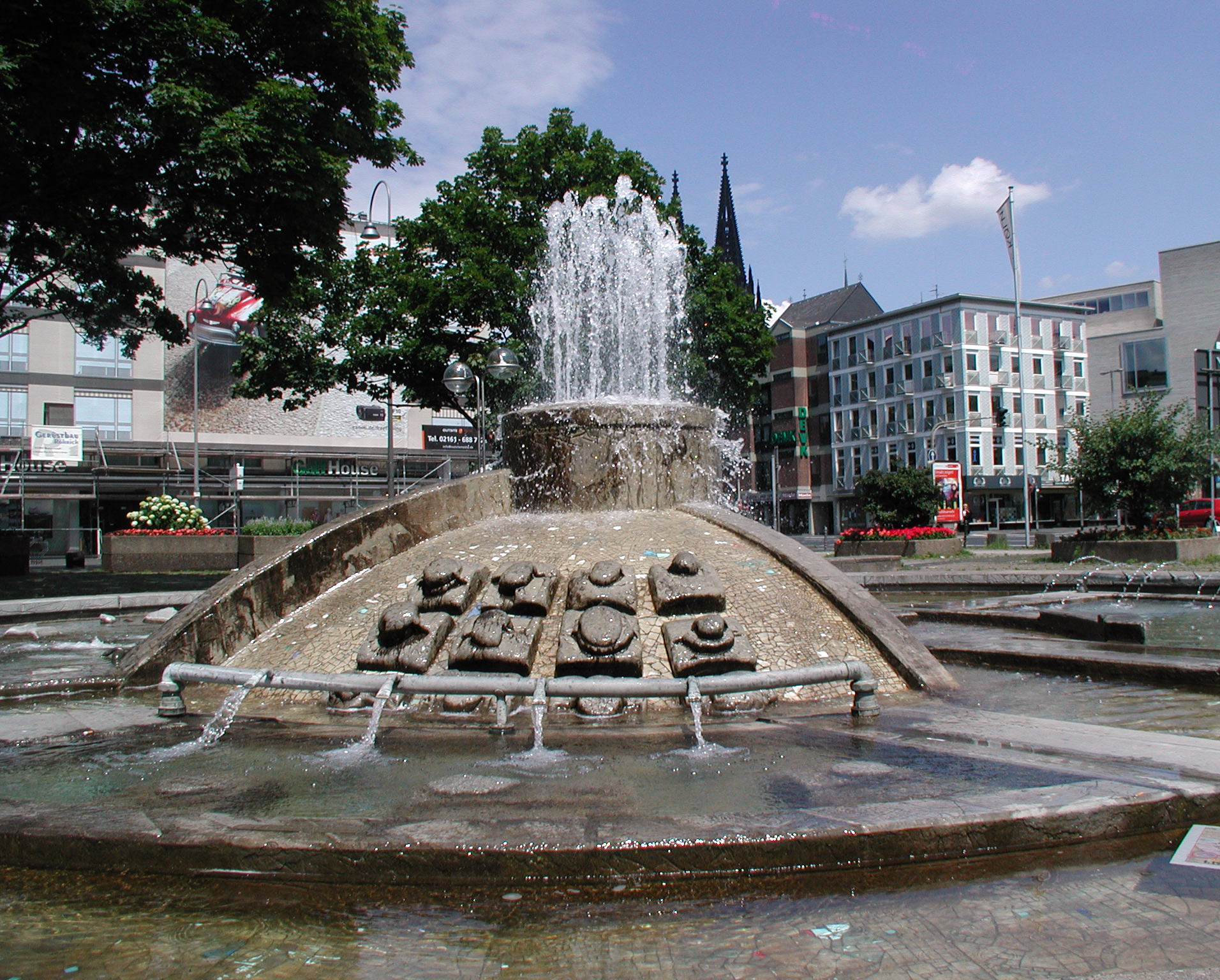 Cologne, fountain at opera